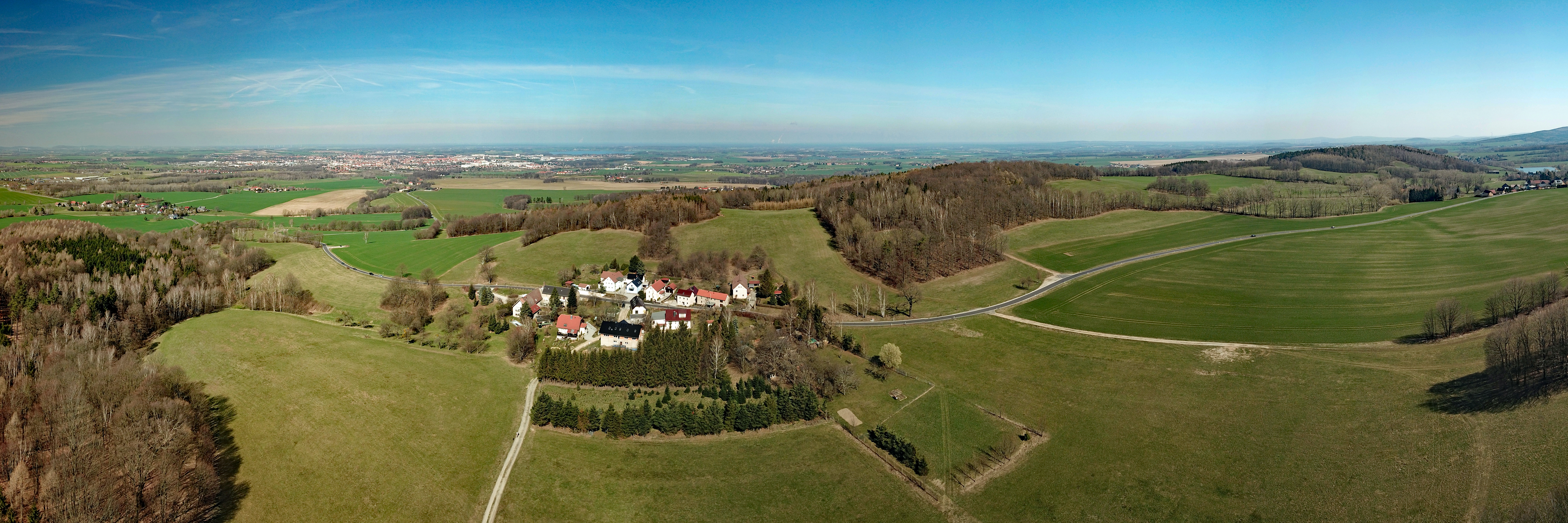 Mehltheuer (Großpostwitz, Saxony, Germany) Hornjoserbsce: Powětrowy wobraz Lubjenca Dieses Foto wurde mit einem Quadcopter innerhalb der RMZ des Flugplatzes EDAB aufgenommen. Der Flugleiter wurde am Aufnahmetag telephonisch über Ort und Zeit informiert und hat zugestimmt. Der Flug erfolgte auf Grundlage der Allgemeinverfügung der Landesdirektion Sachsen zur Erteilung der Betriebserlaubnis für unbemannte Luftfahrtsysteme und Flugmodelle gemäß § 21a LuftVO und Zulassung von Ausnahmen von Betriebsverboten gemäß § 21b LuftVO für den Freistaat Sachsen.